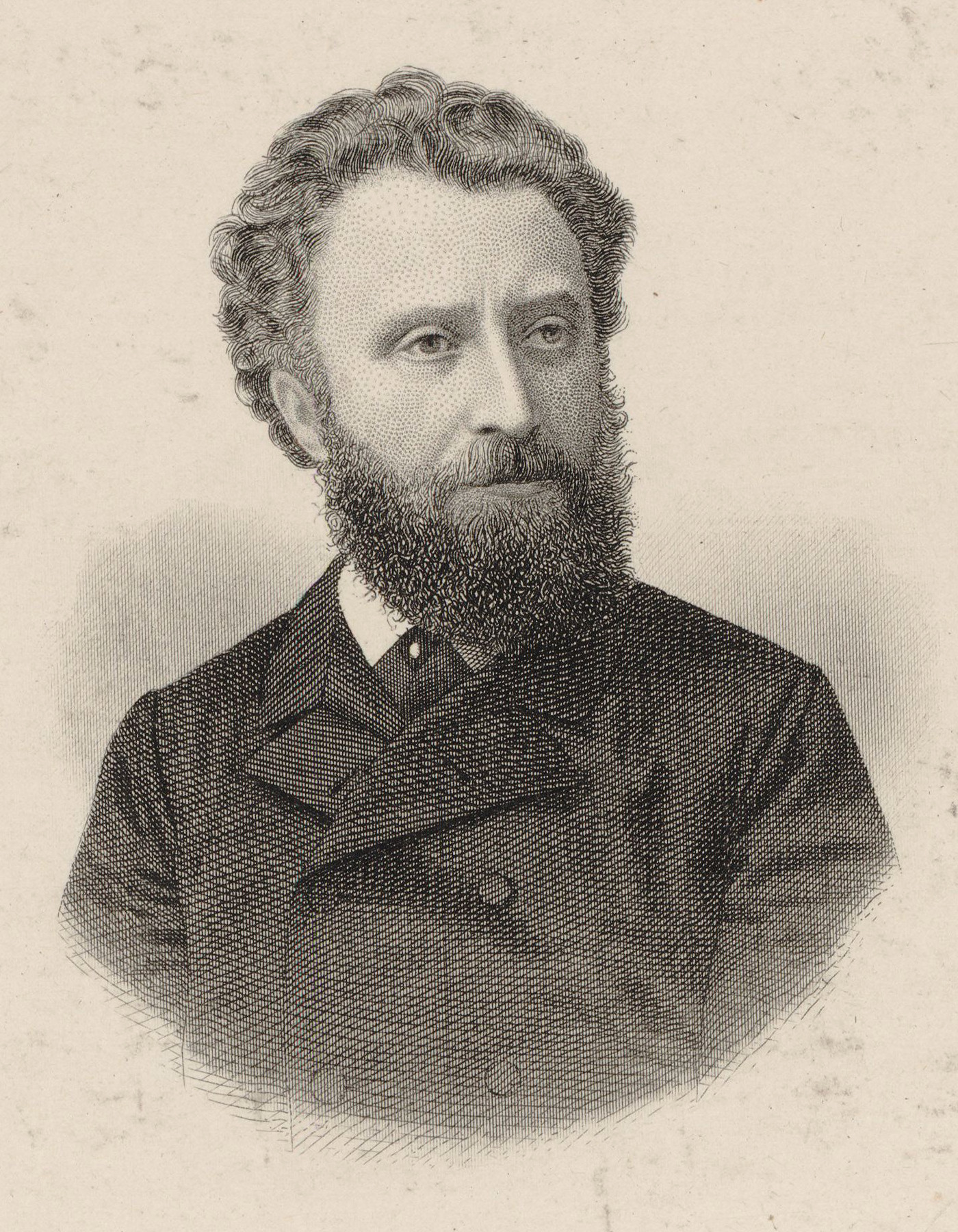 Depicted person: Friedrich Gernsheim